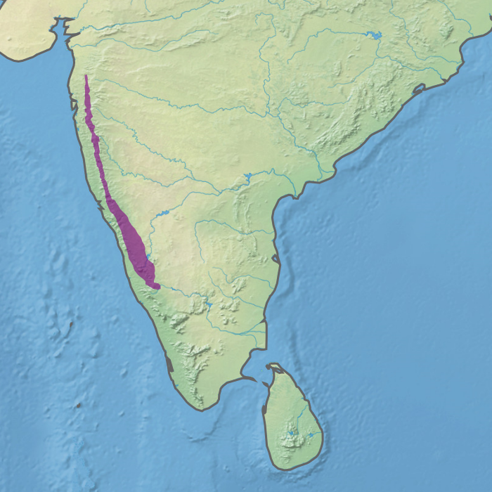 Ecoregion IM0135 - North Western Ghats montane rain forests (in purple)